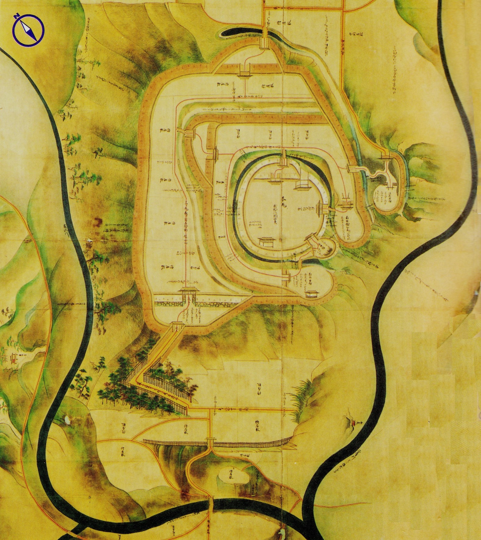 Old map of Takato castle